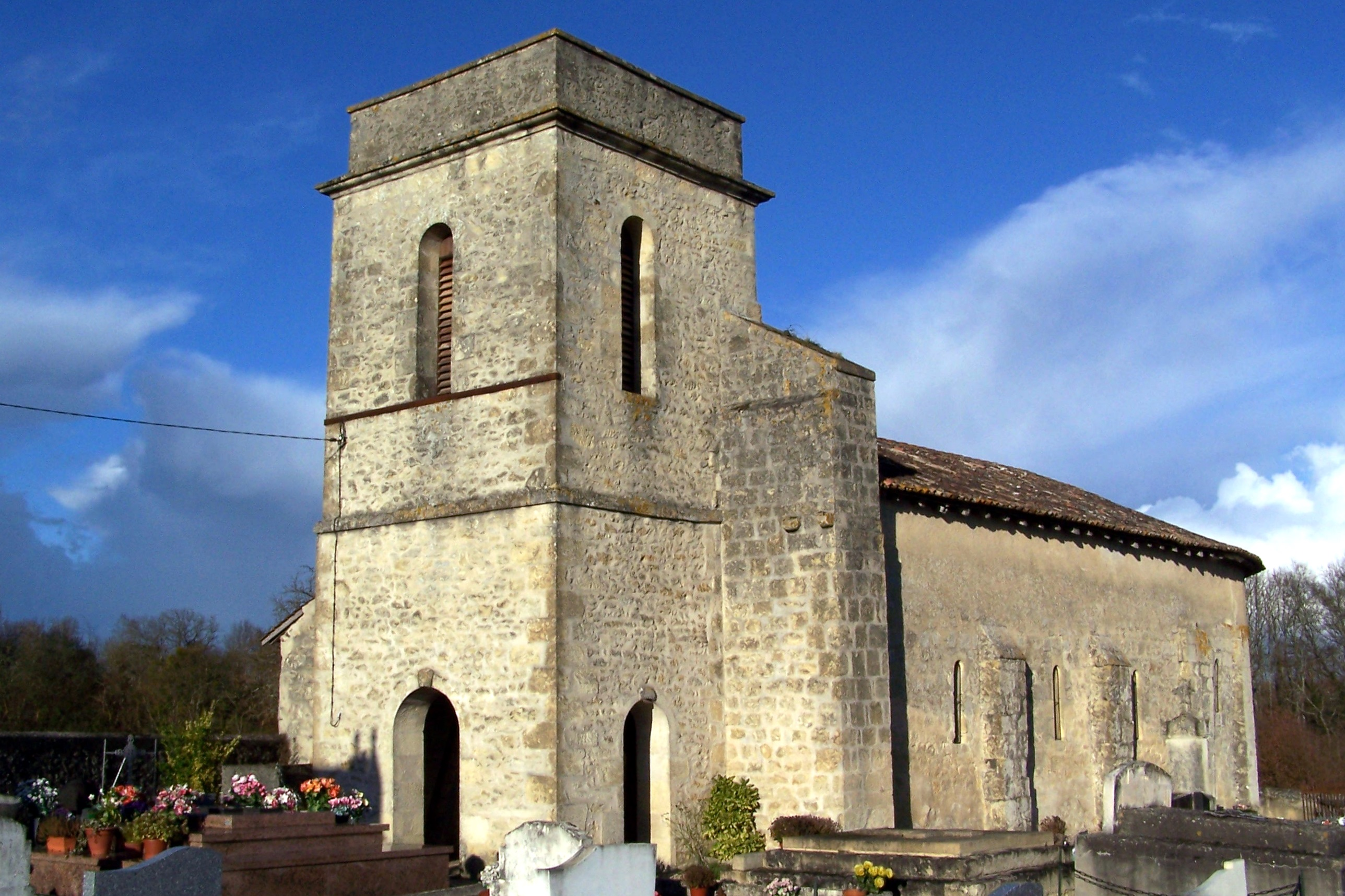 Church Saint-Félix of Saint-Félix-de-Foncaude (Gironde, France)